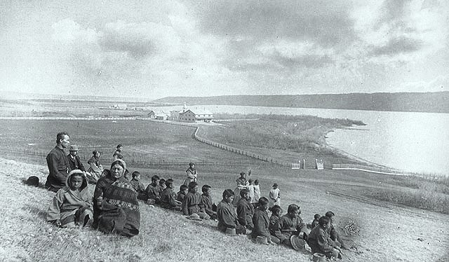 Students and family members, Father Joseph Hugonnard, Principal, staff and Grey Nuns on a hill overlooking the Fort Qu'Appelle Indian Industrial School, Lebret, Saskatchewan, May 1885